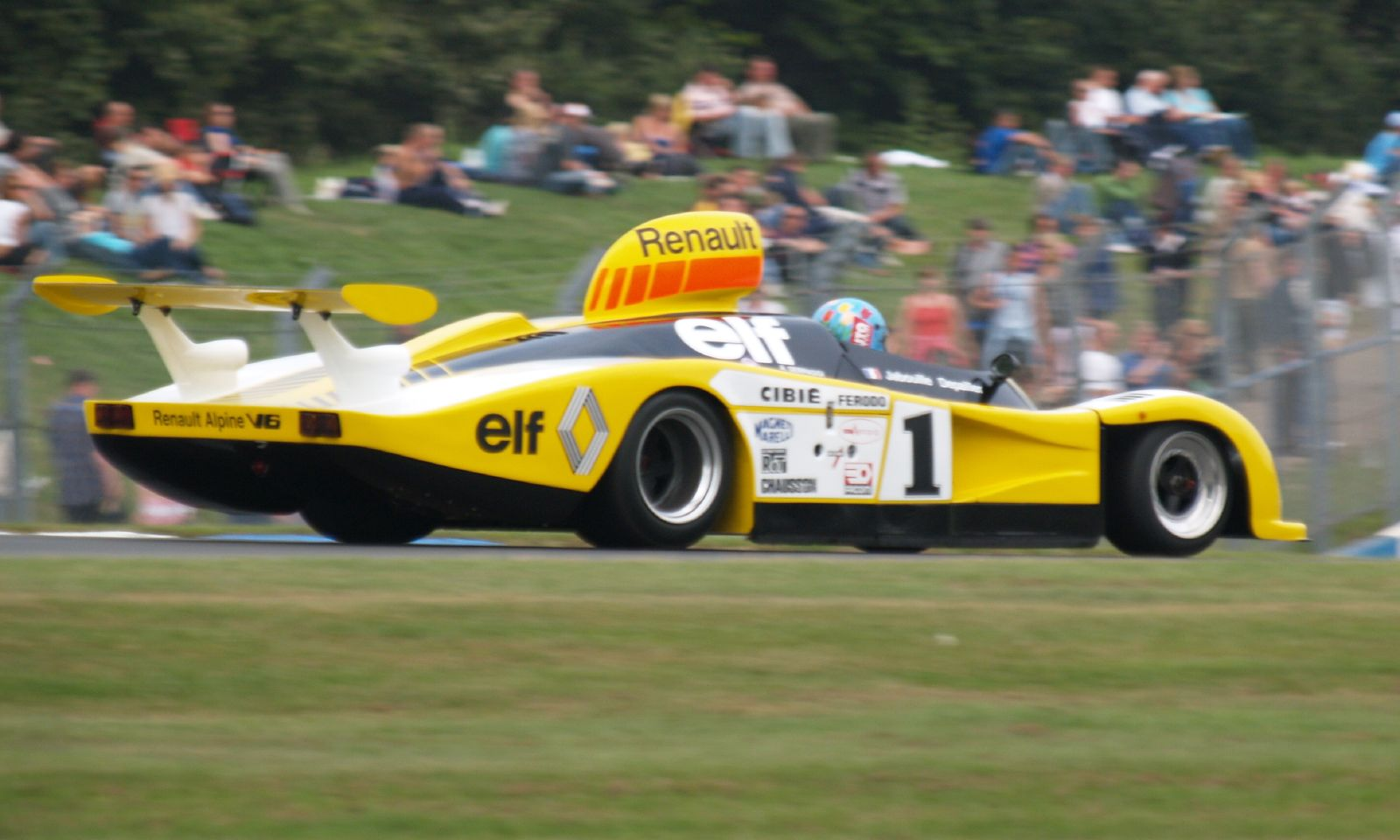 A 1978 Renault Alpine A443 sports prototype racing car being demonstrated at the World Series by Renault event at Donington Park, September 2007.